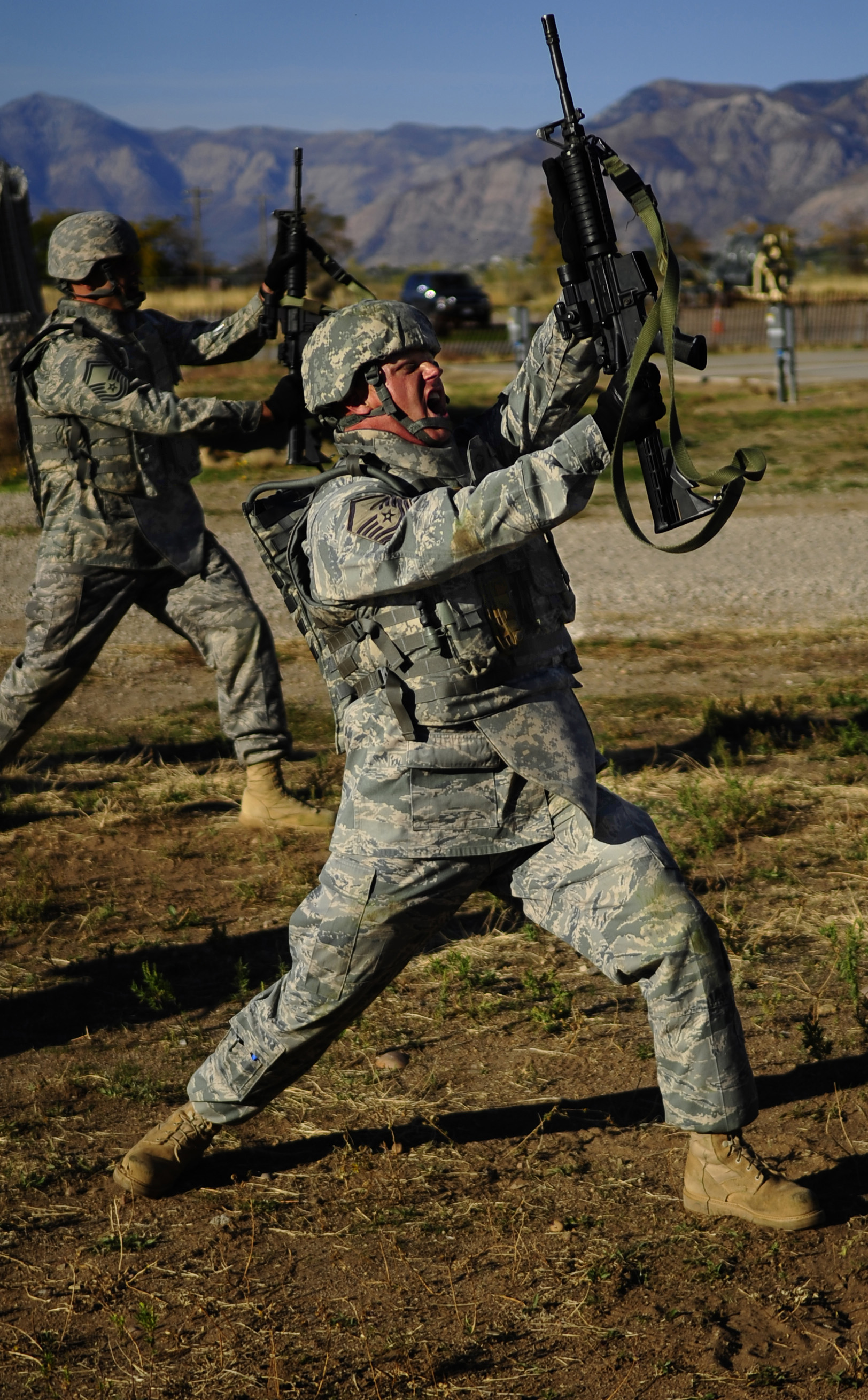 U.S. Air Force Master Sgt. Doug Clayton, with the 75th Security Forces Squadron, practices rifle-fighting techniques during a combat readiness training course at Hill Air Force Base, Utah, on Oct. 18, 2010. The course provided airmen with deployment skills including tactical movements, land navigation and first-aid buddy care.